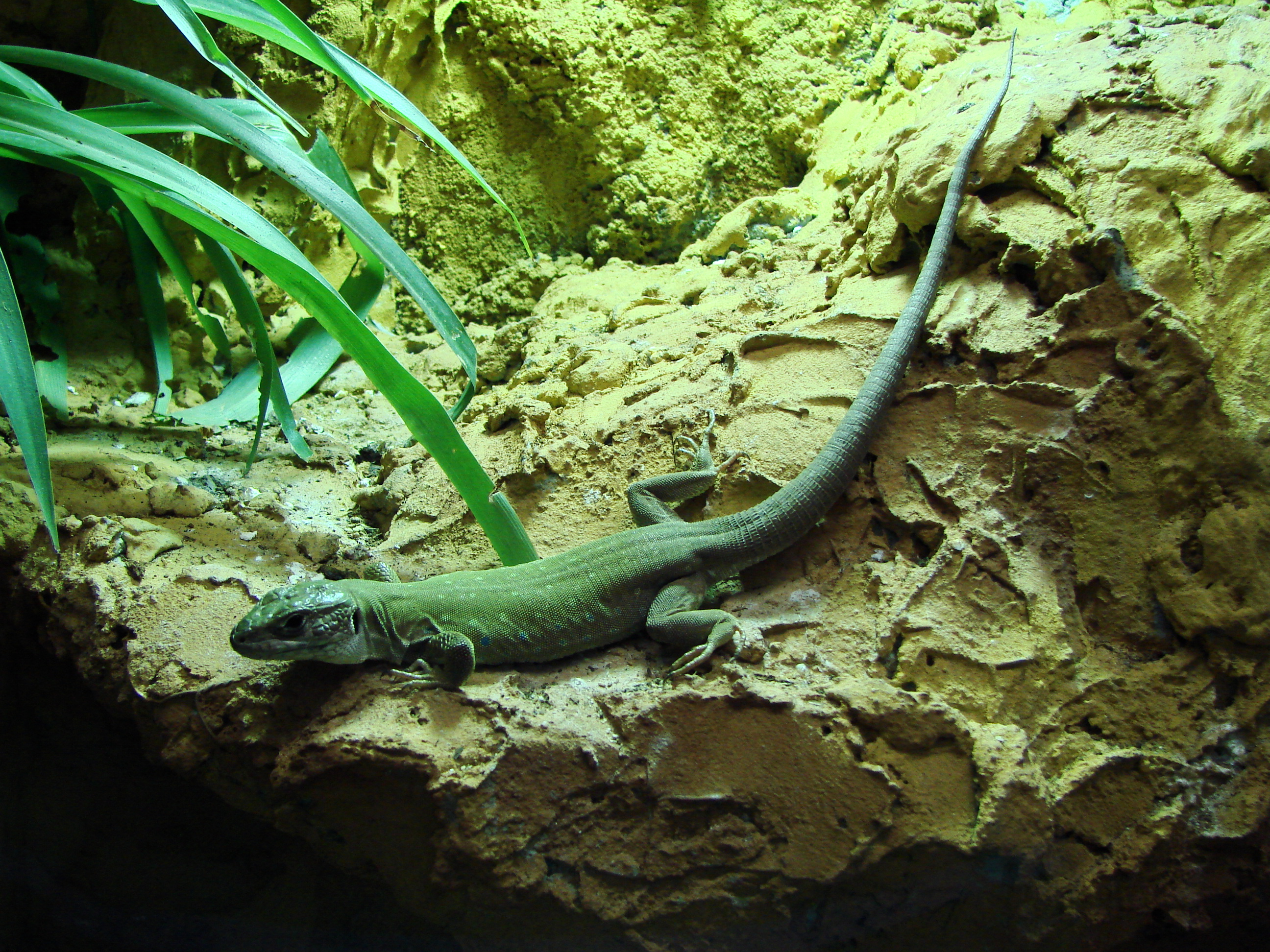 Picture taken in the zoo of Wrocław (Poland): Timon pater (Lataste, 1880)